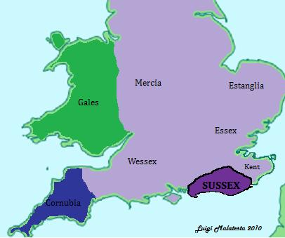 Map of situation of Sussex